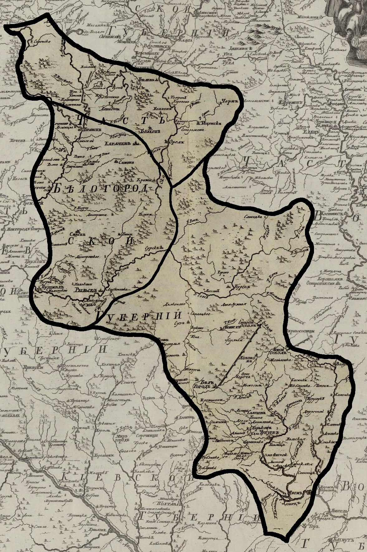 Belgorod Governorate map. Compiled from map V&VII of Atlas of the Russian Empire (1745). Borders of governorate and internal provinces outlined.